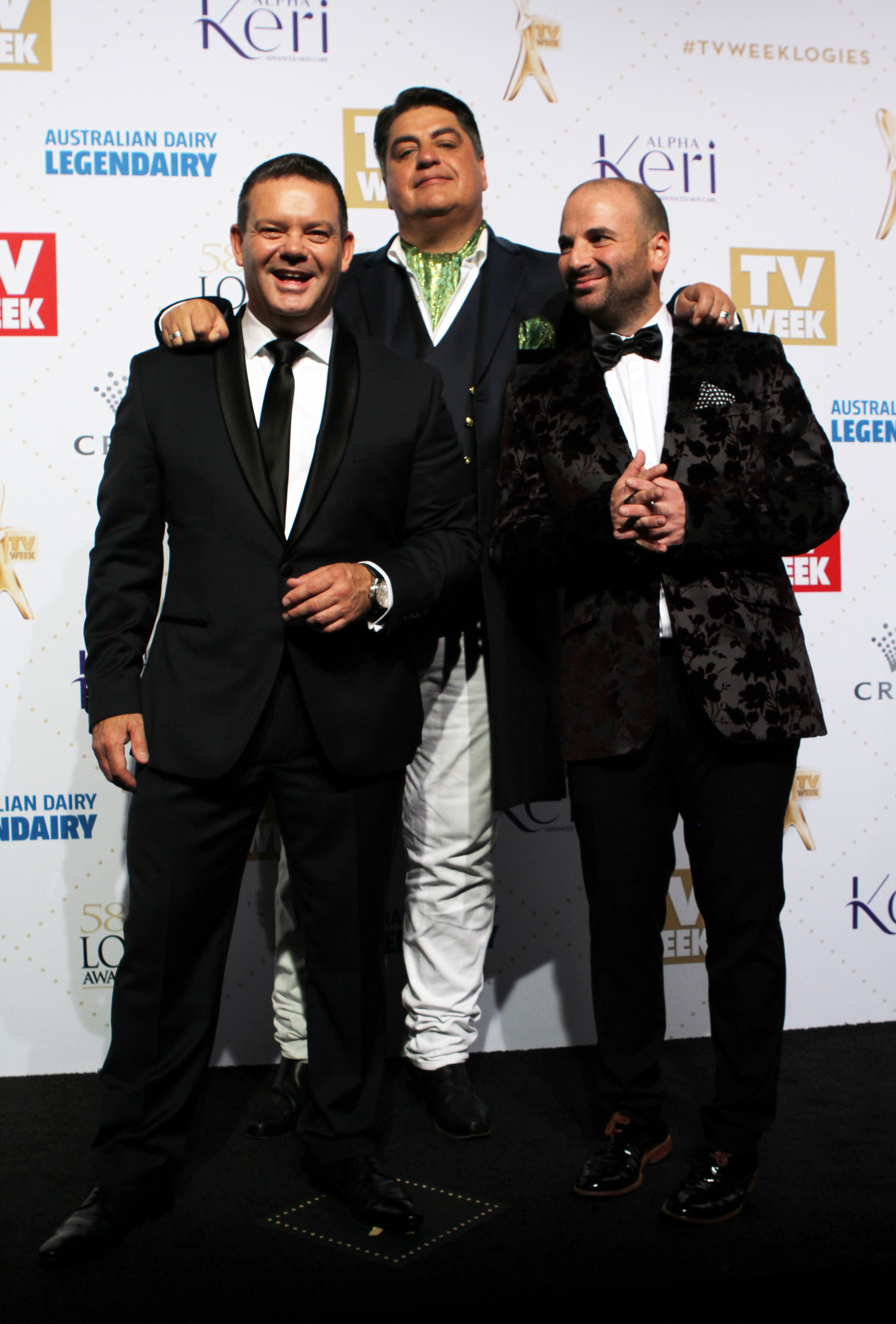 George Calombaris, Matt Preston and Gary Mehigan 2016 TV Week Logie Awards